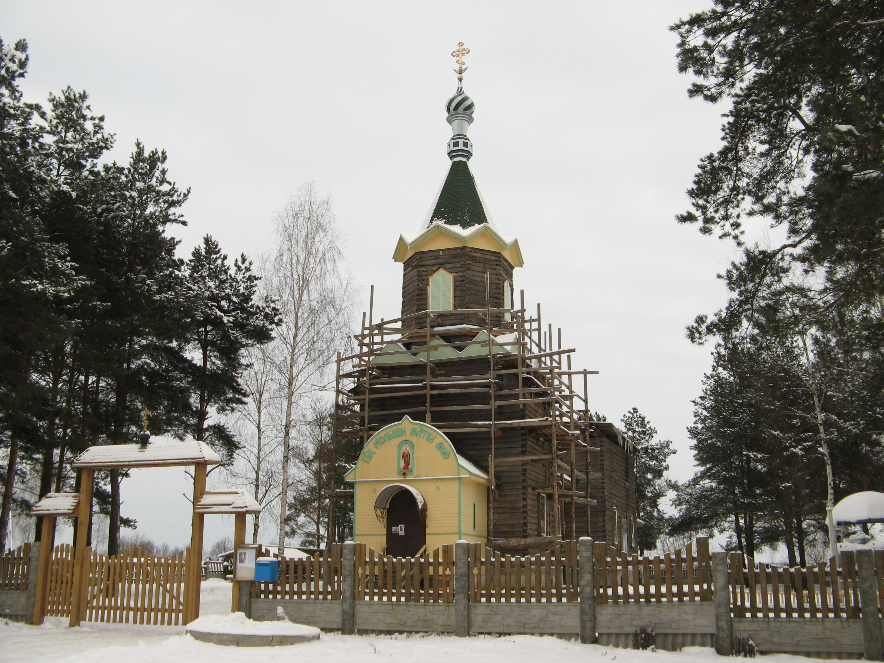 Orthodox church of St Illa in Babrujsk